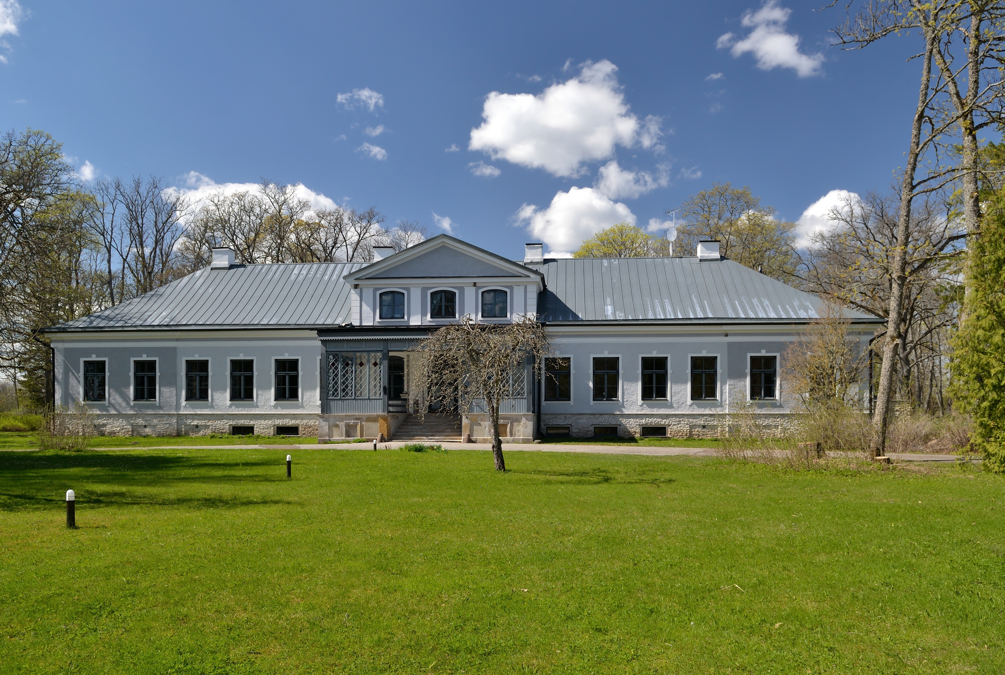 Koordi manor main building